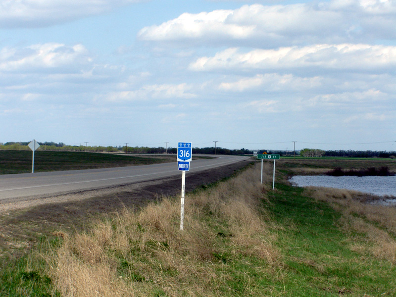 Wikipedia:Saskatchewan Highway 316 North and Junction 17